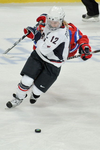 #12 Jenny Potter, 2010 Vancouver Winter Olympics, Feb. 16, 2010, USA vs Russia